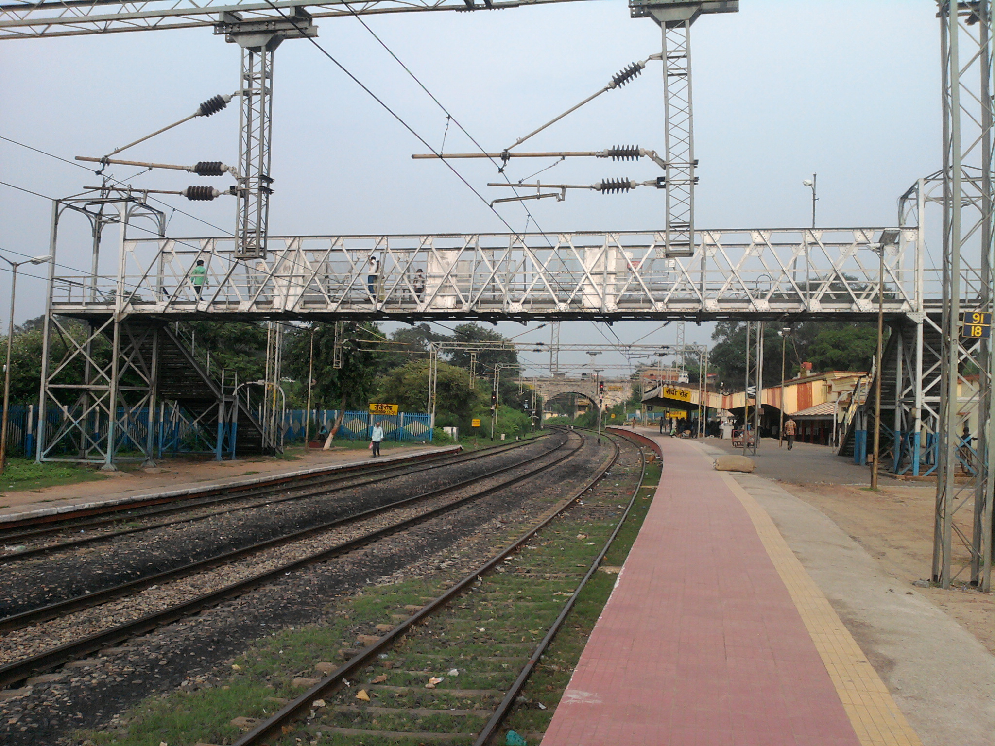 A View of Ranchi Road Station